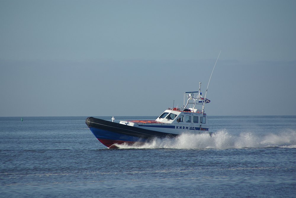 KNRM Lifeboat "Christien" on the Waddenzee near Harlingen NL